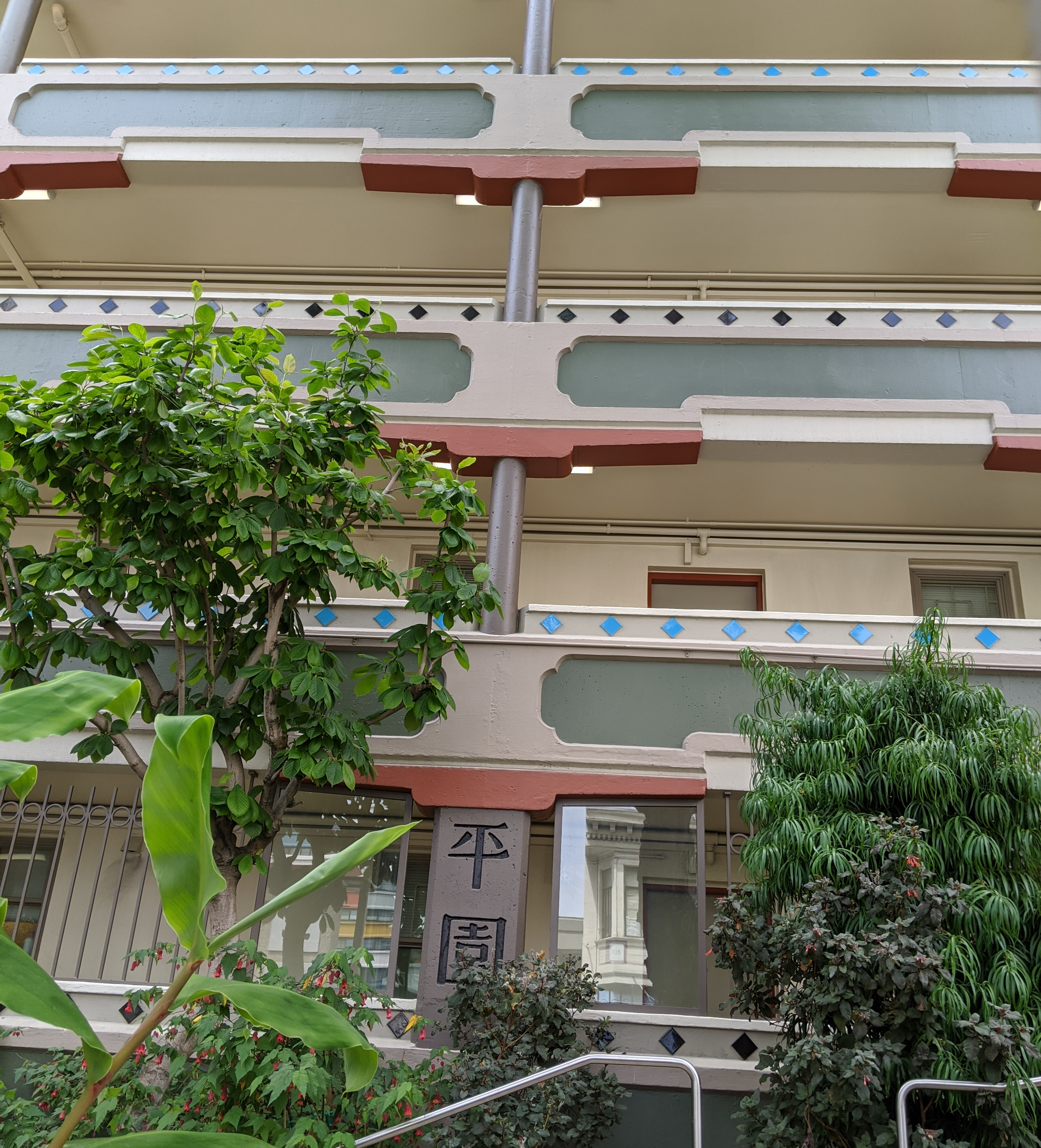 Part of the Pacific Avenue facade of the West Ping Yuen (西平園) public housing complex in San Francisco's Chinatown